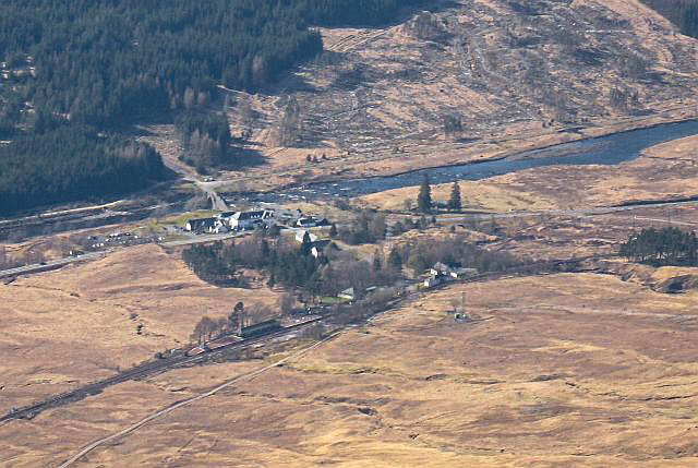 Bridge of Orchy